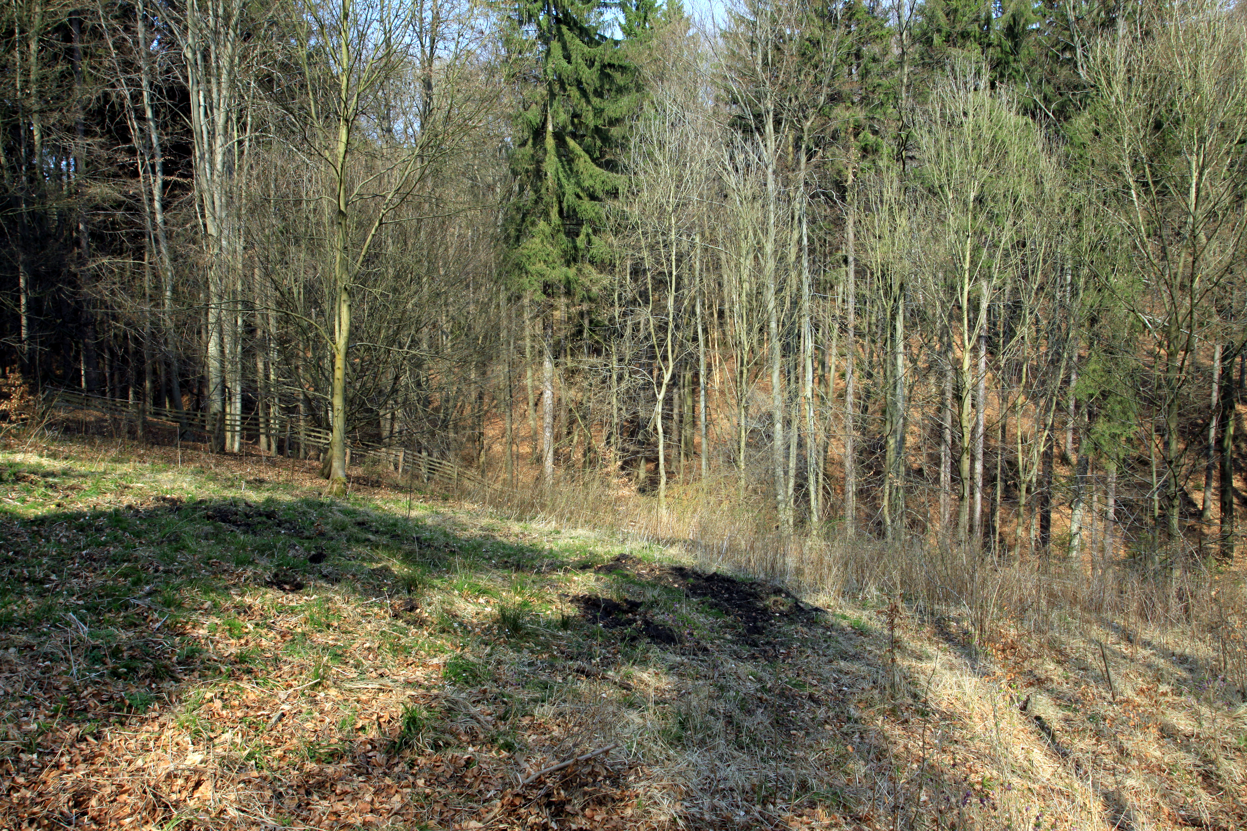 National natural monument Bílichovské údolí, Kladno District, Czechia